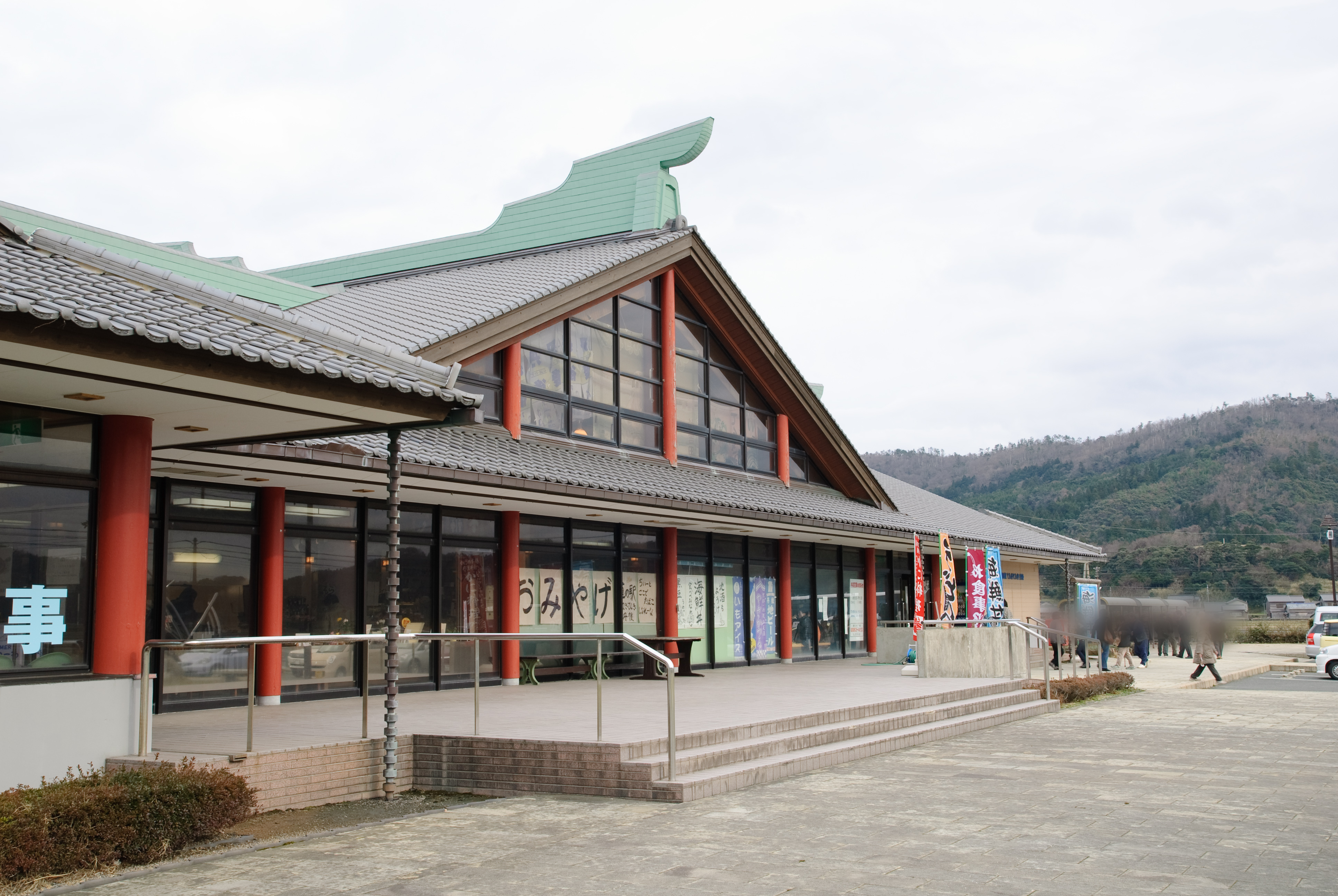 Michinoeki Tenki Tenki Tango in Kyotango City, Kyoto Prefecture, Japan